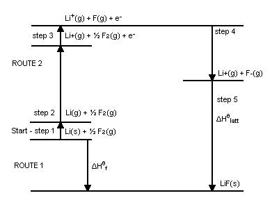 A Diagram of the Born–Haber cycle for the standard enthalpy change of formation of Lithium Floride